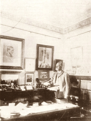 Thomas Hanbury